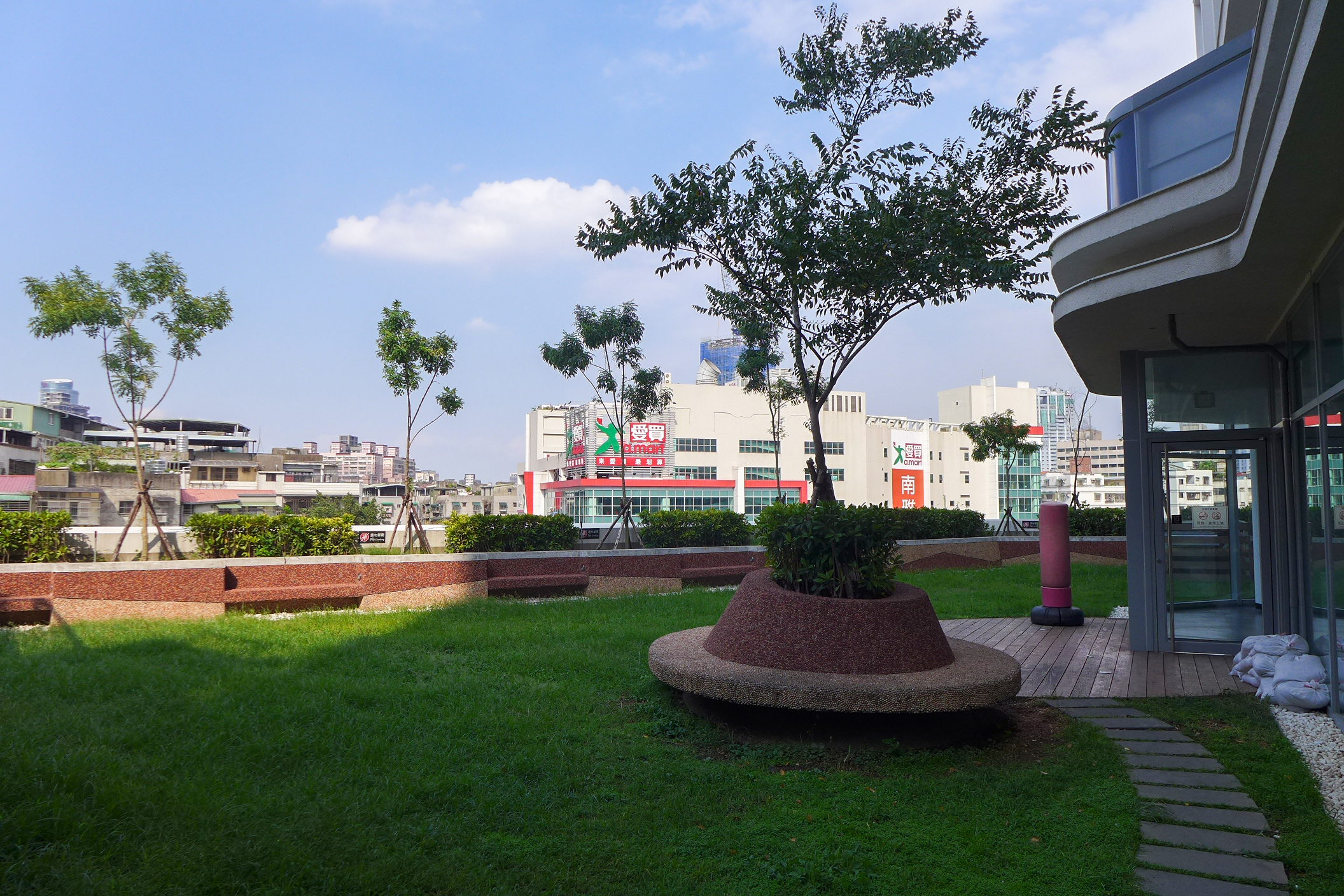 New Taipei City Main Library Podium garden